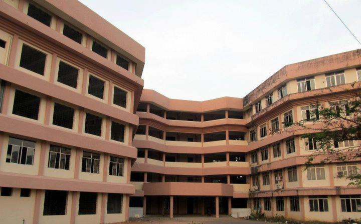 New Face of College of Engineering Chengannur after having its second block built in 2011. The skeleton of the second block was there from 1998 to 2010 end, as there're some legal proceedings going on in the contract issue.